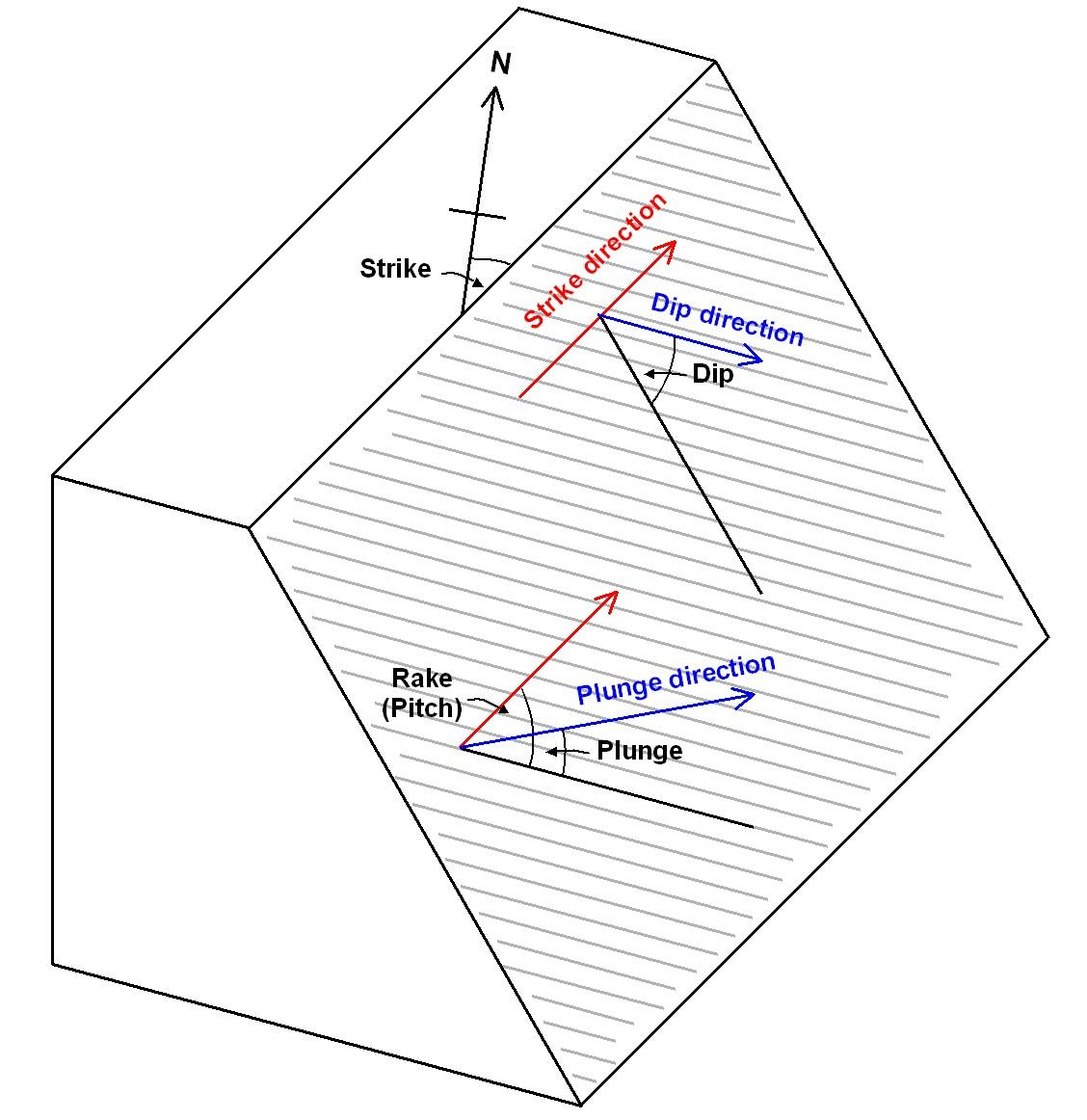 Illustration of naming and conventions used in measurements in Structural geology